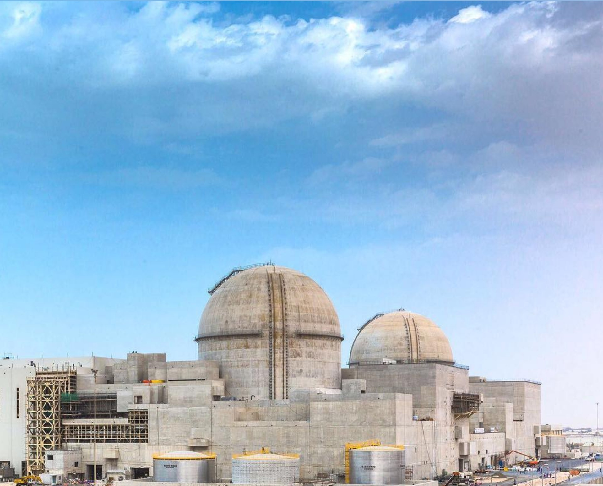 Barakah nuclear power plant under construction in 2017.